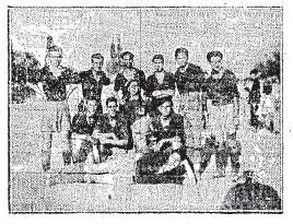 Goudi, Greek football club in 1930